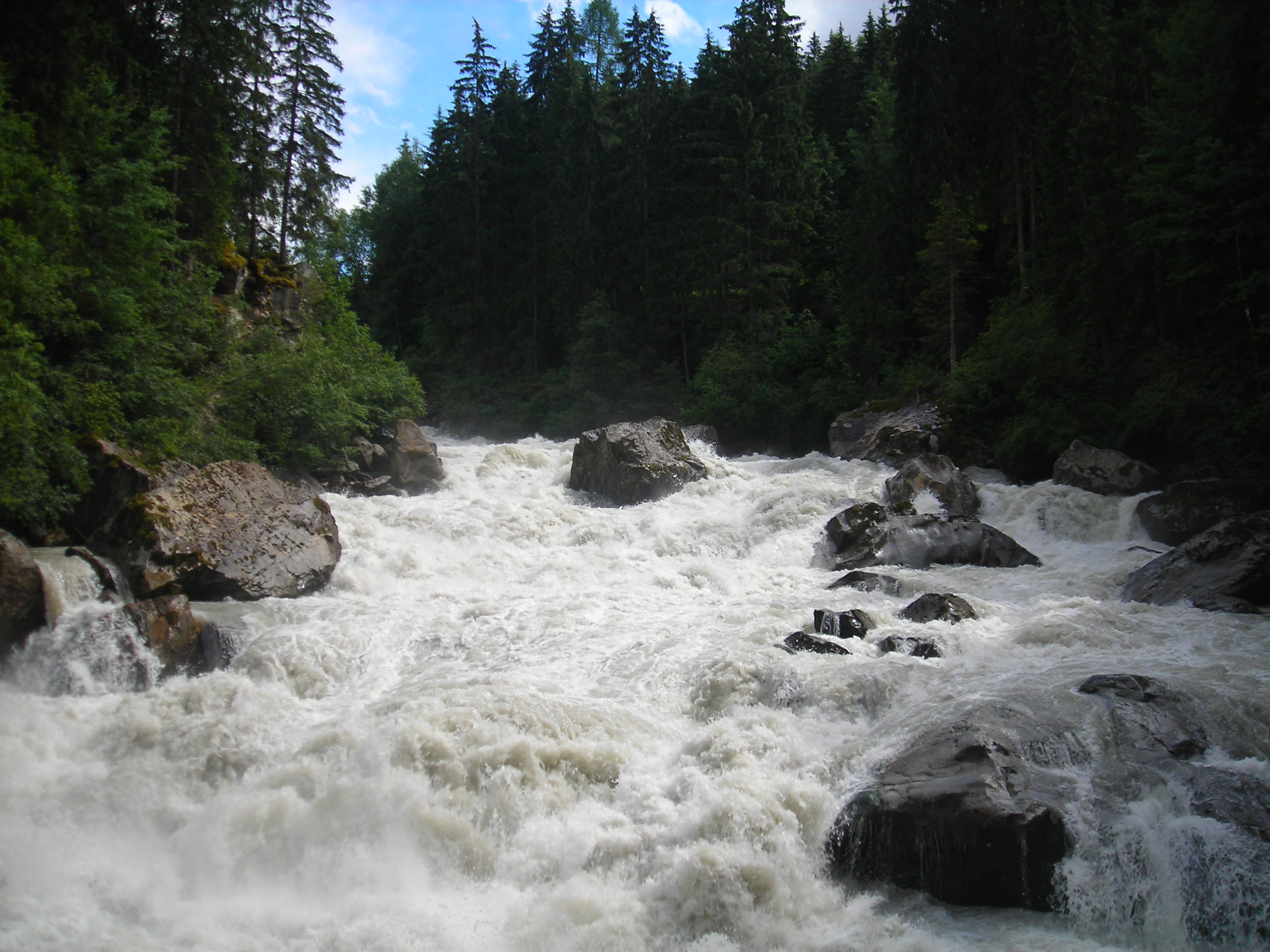 Oetz river, Wellerbruecke